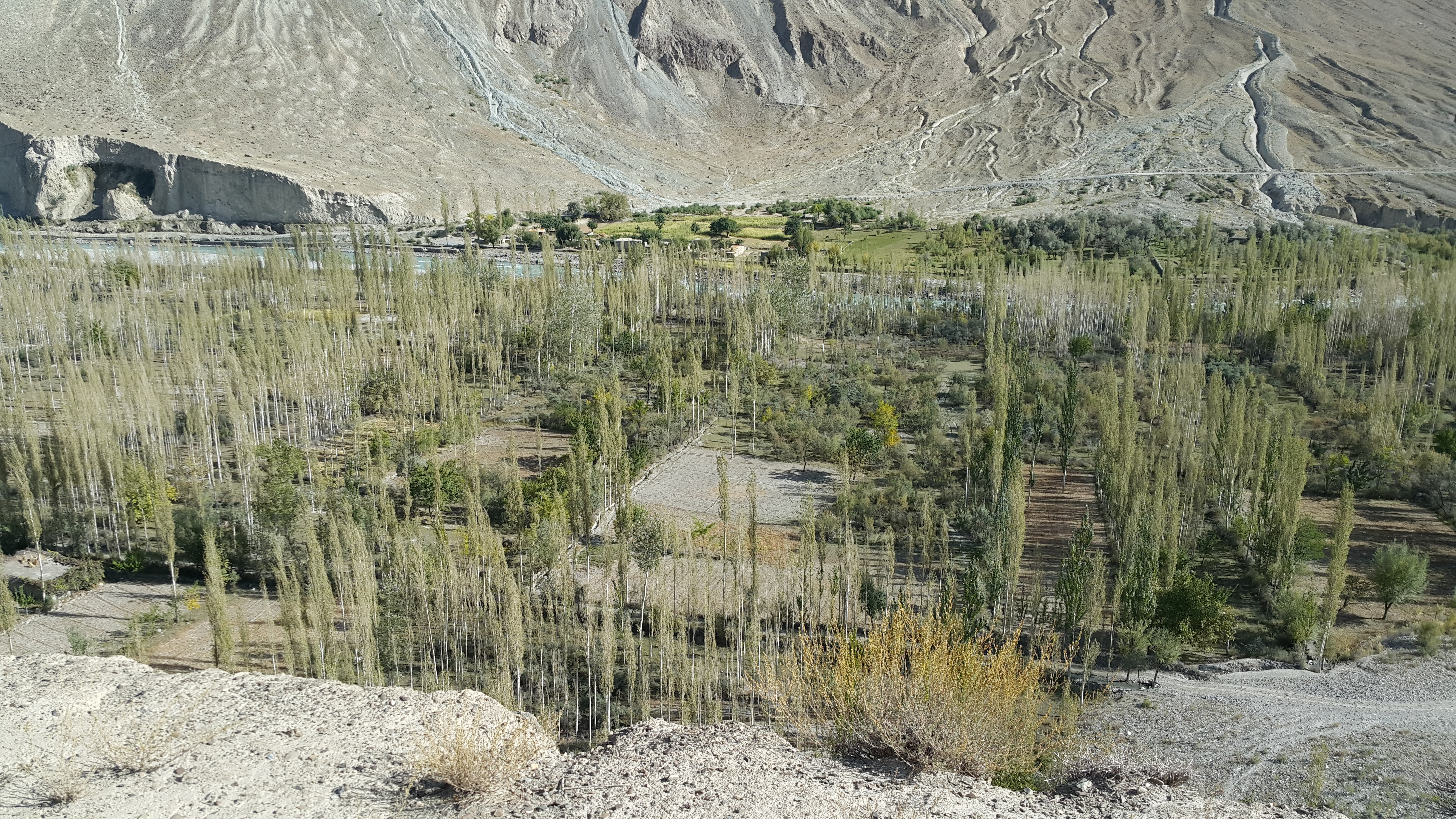 View of Hatun Valley from the top.